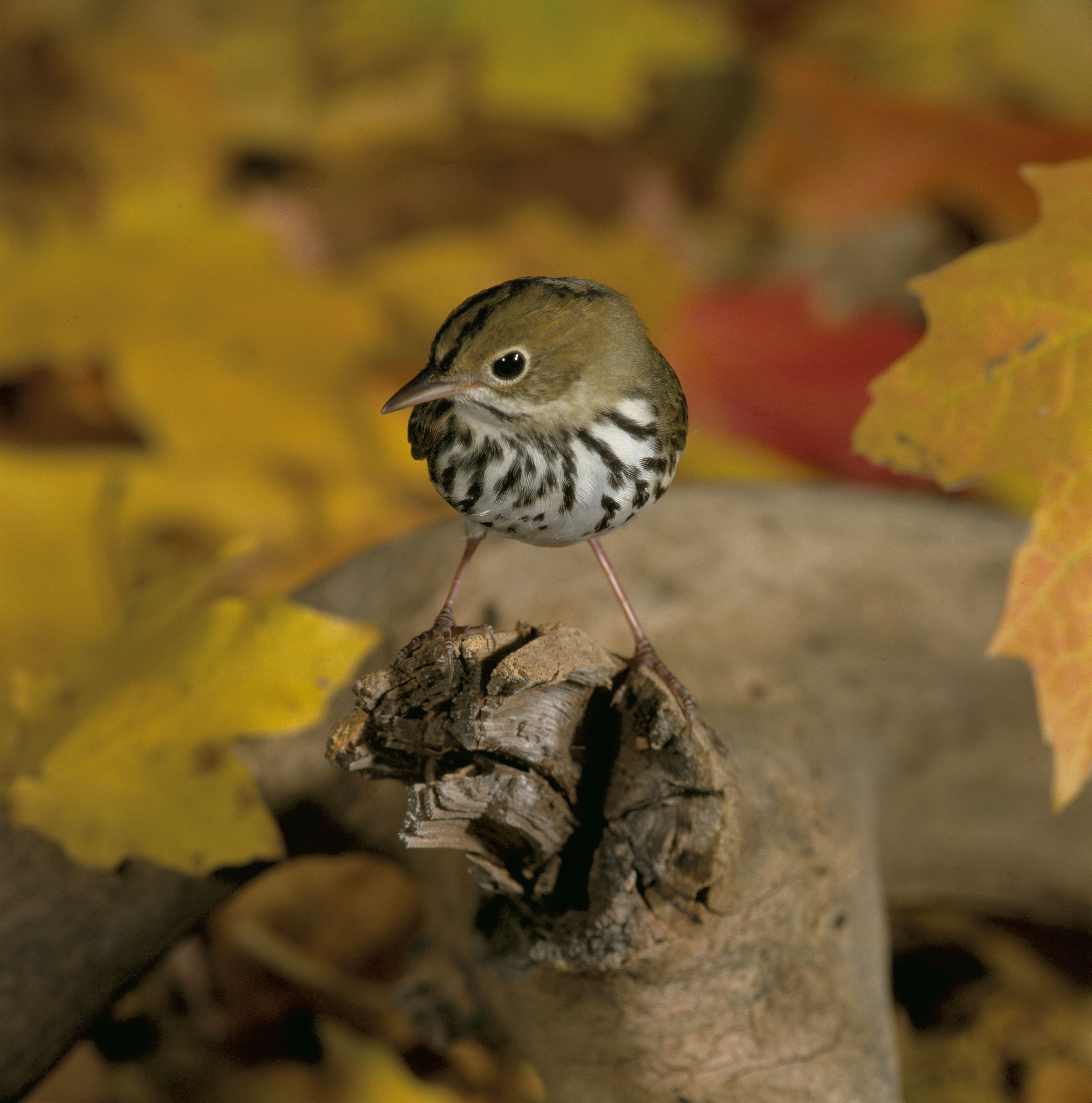 Ovenbird on a log